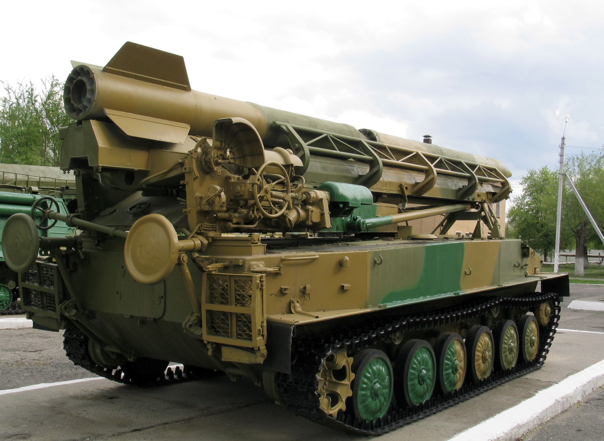 2P16 Transporter-Erector-Launcher with 3R9 rocket of 2K6 missile complex «Luna». Kapustin Yar museum in Znamensk, Russia.